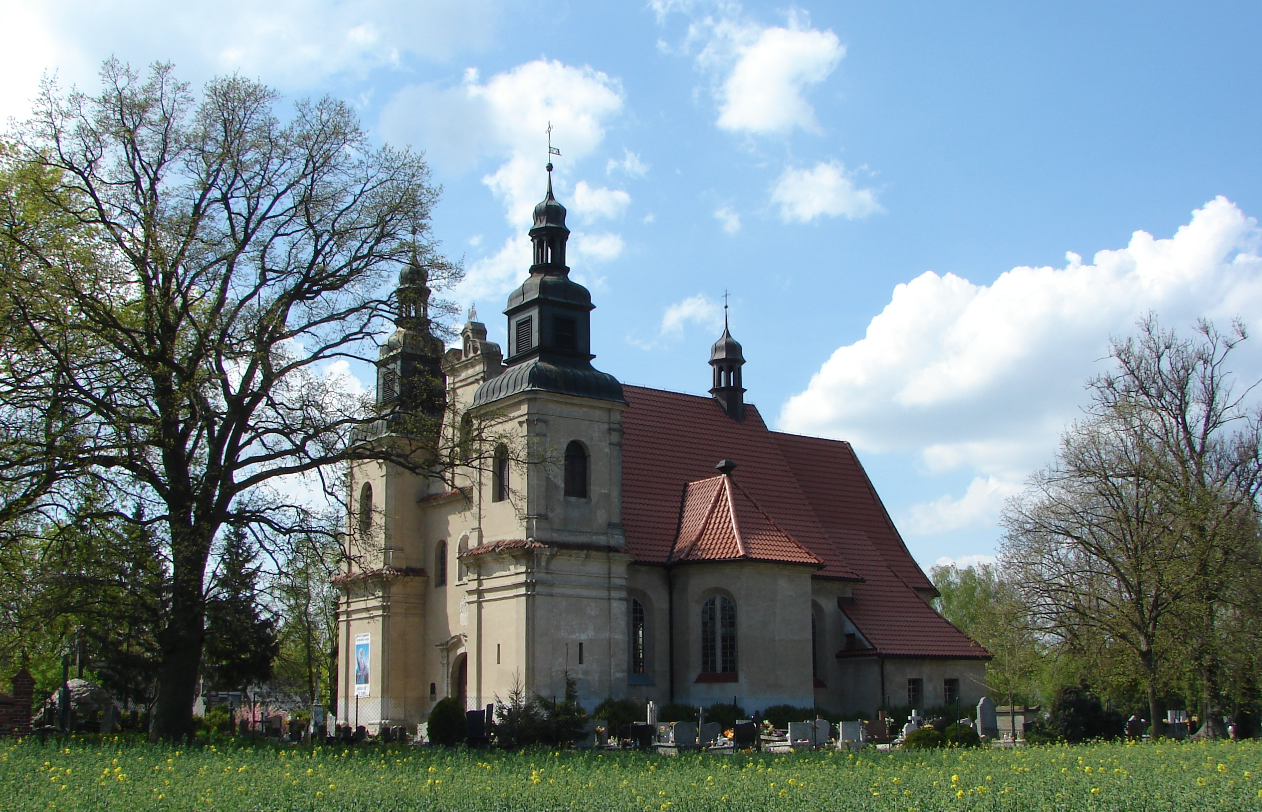 Starogród, Chełmno county, Poland. Church of St Barbara from 1754.